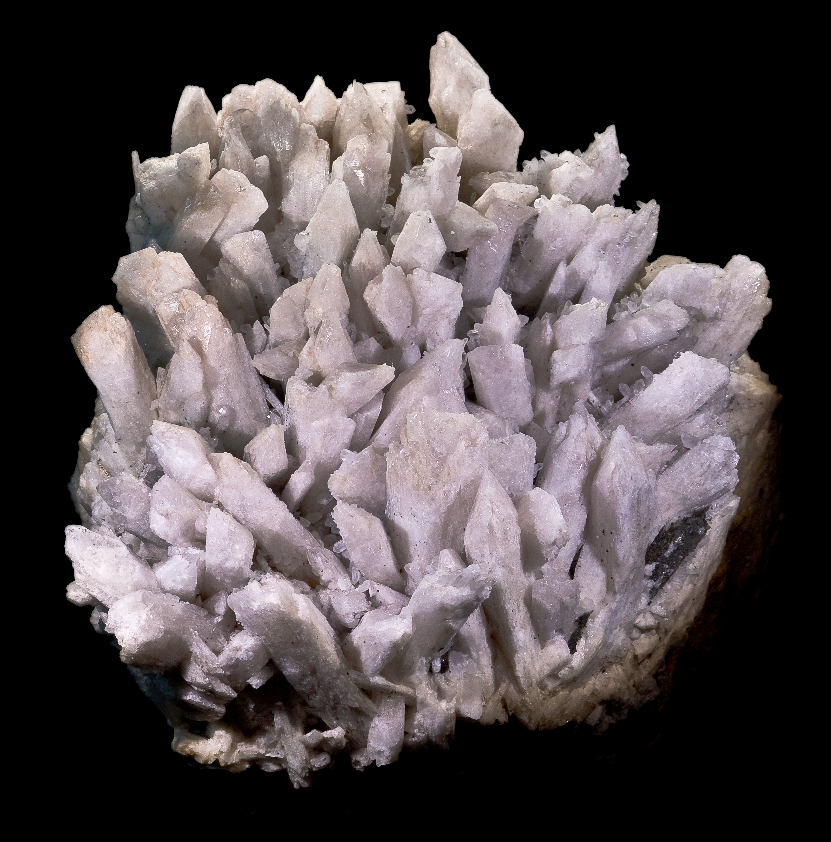 Danburite Loclity: San Sebastian Mine, Charcas, Municipio de Charcas, San Luis Potosí, Mexico Size 35x28x21cm